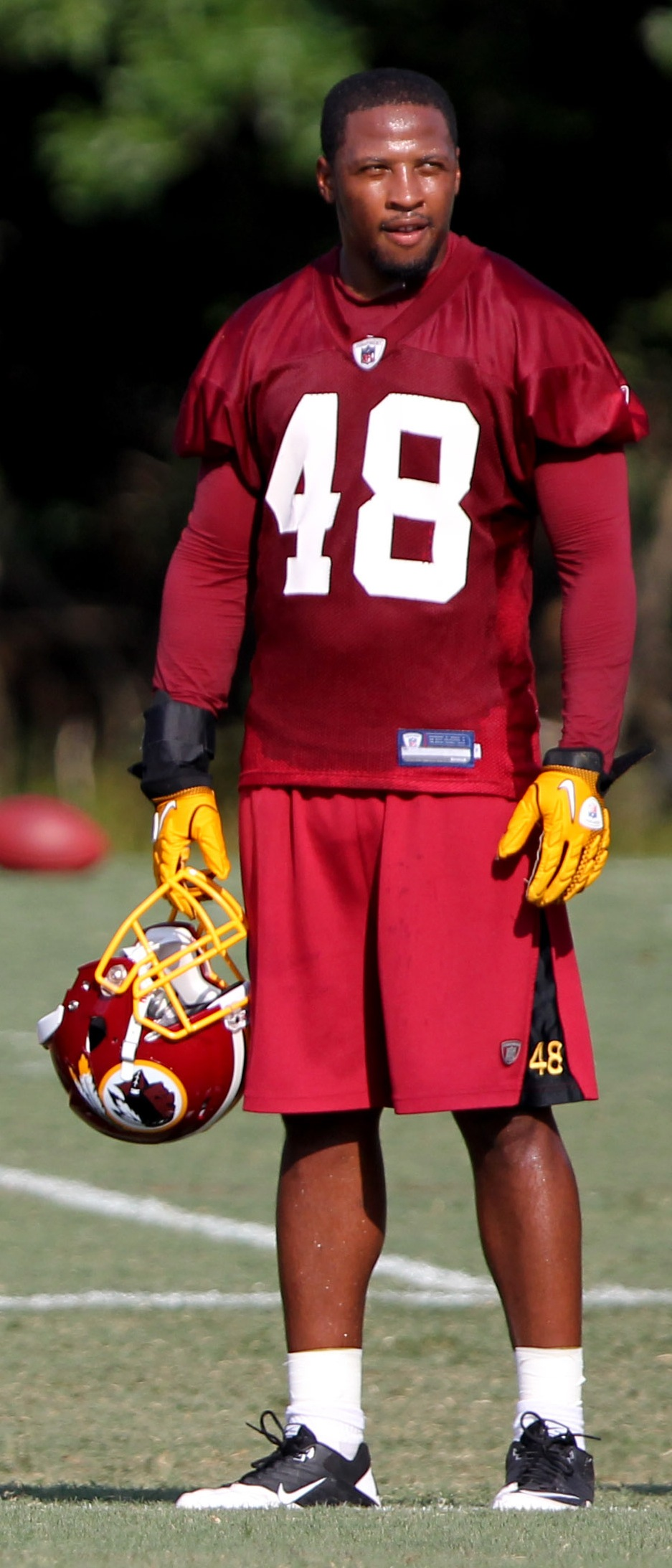 Chris Horton at Washington Redskins Training Camp August 4, 2011